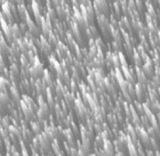 Carbon nanotubes imaging from SEM (Scanning Electron Microscopy). Original